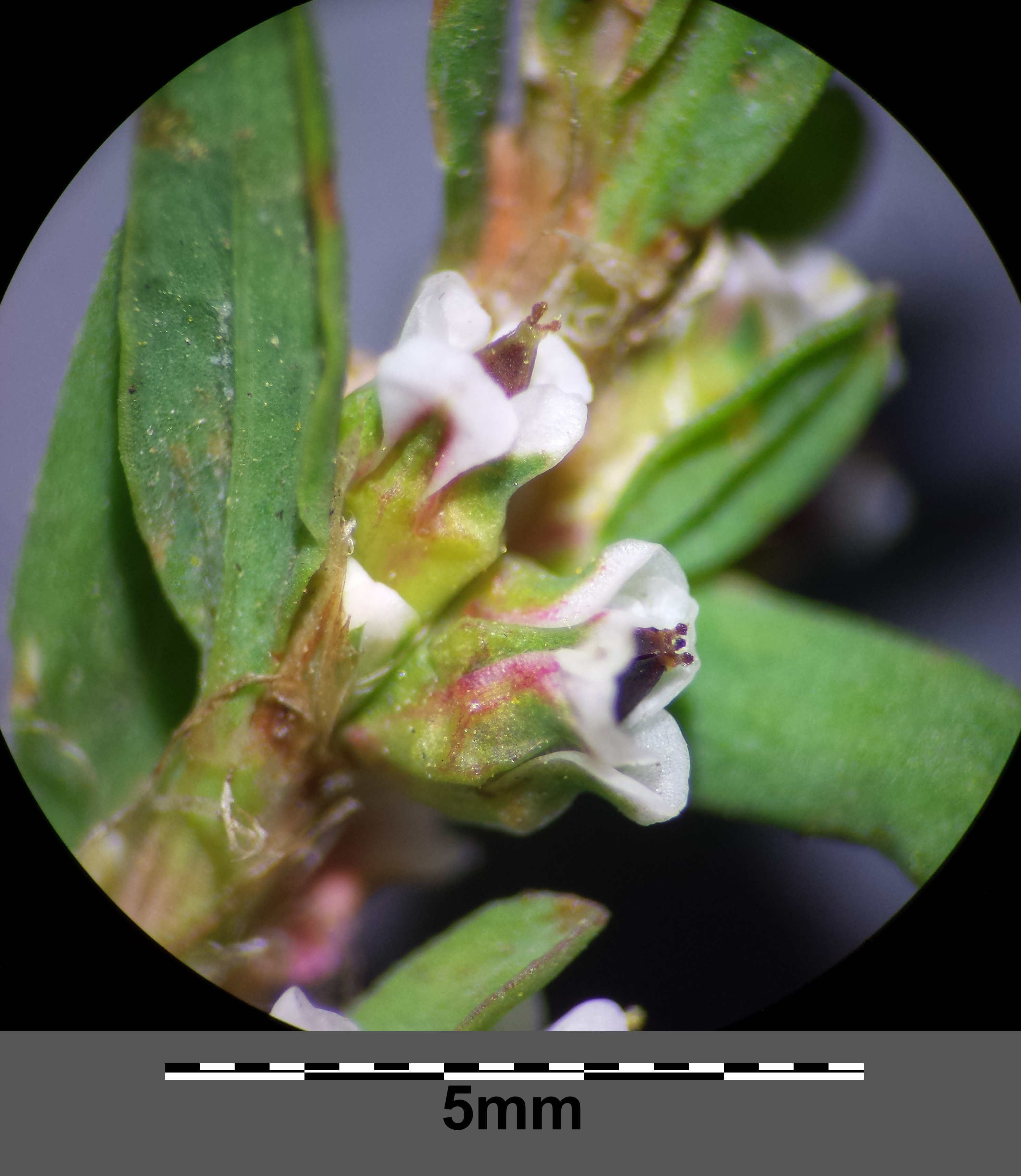 Inflorescence Taxonym: Polygonum aviculare subsp. depressum (s. lat.) ss Fischer et al. EfÖLS 2008 ISBN 978-3-85474-187-9 Location: Bodenstedtgasse, Vienna-Floridsdorf - ca. 160 m a.s.l. Habitat: ruderal area